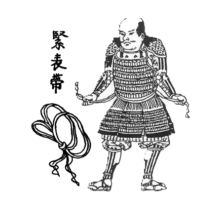 An Edo period wood block print showing a samurai putting on an uwa-obi or himo (belt).